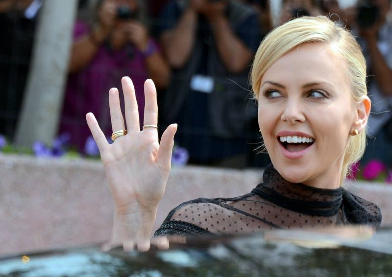 Charlize Theron at the Cannes film festival